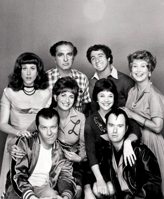 1976 cast photo from the television program Laverne and Shirley. Standing, from left: Carole Ita White (Rosie Greenbaum), Phil Foster (Frank DeFazio), Eddie Mekka (Carmine Ragusa), Betty Garrett (Edna Babish). Middle row, standing: Penny Marshall (Laverne DeFazio), Cindy Williams (Shirley Feeney). Seated : Michael McKean (Lenny), David Lander (Squiggy).